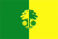 Flag of Rajon Strășeni